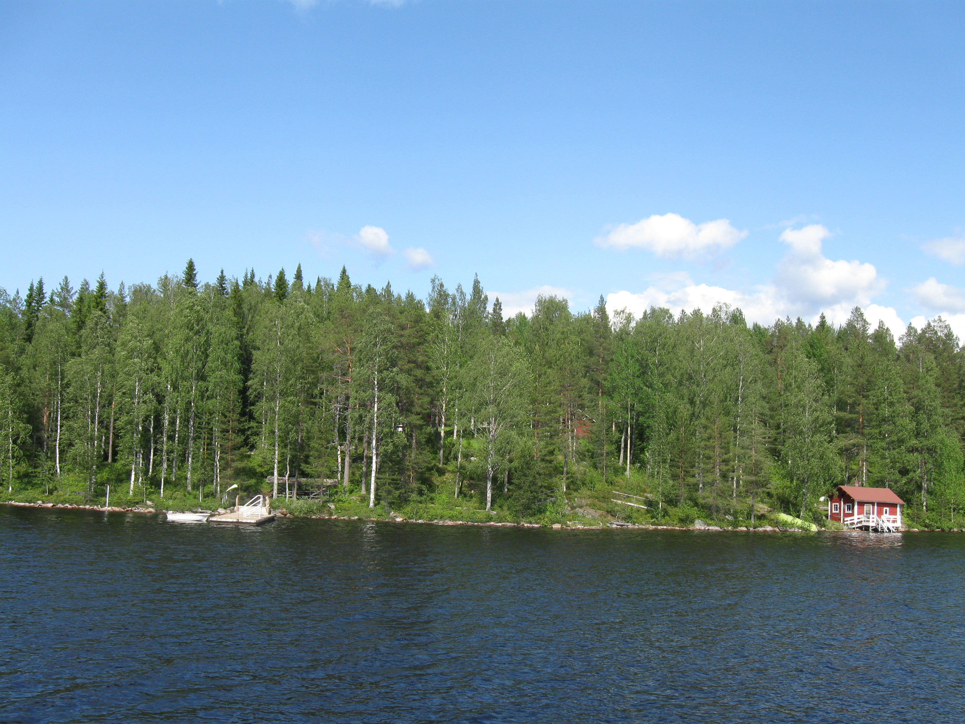 A view to the Turjanlinna area, where the Finnish author Ilmari Kianto used to live, from the lake Kiantajärvi in Suomussalmi, Finland.